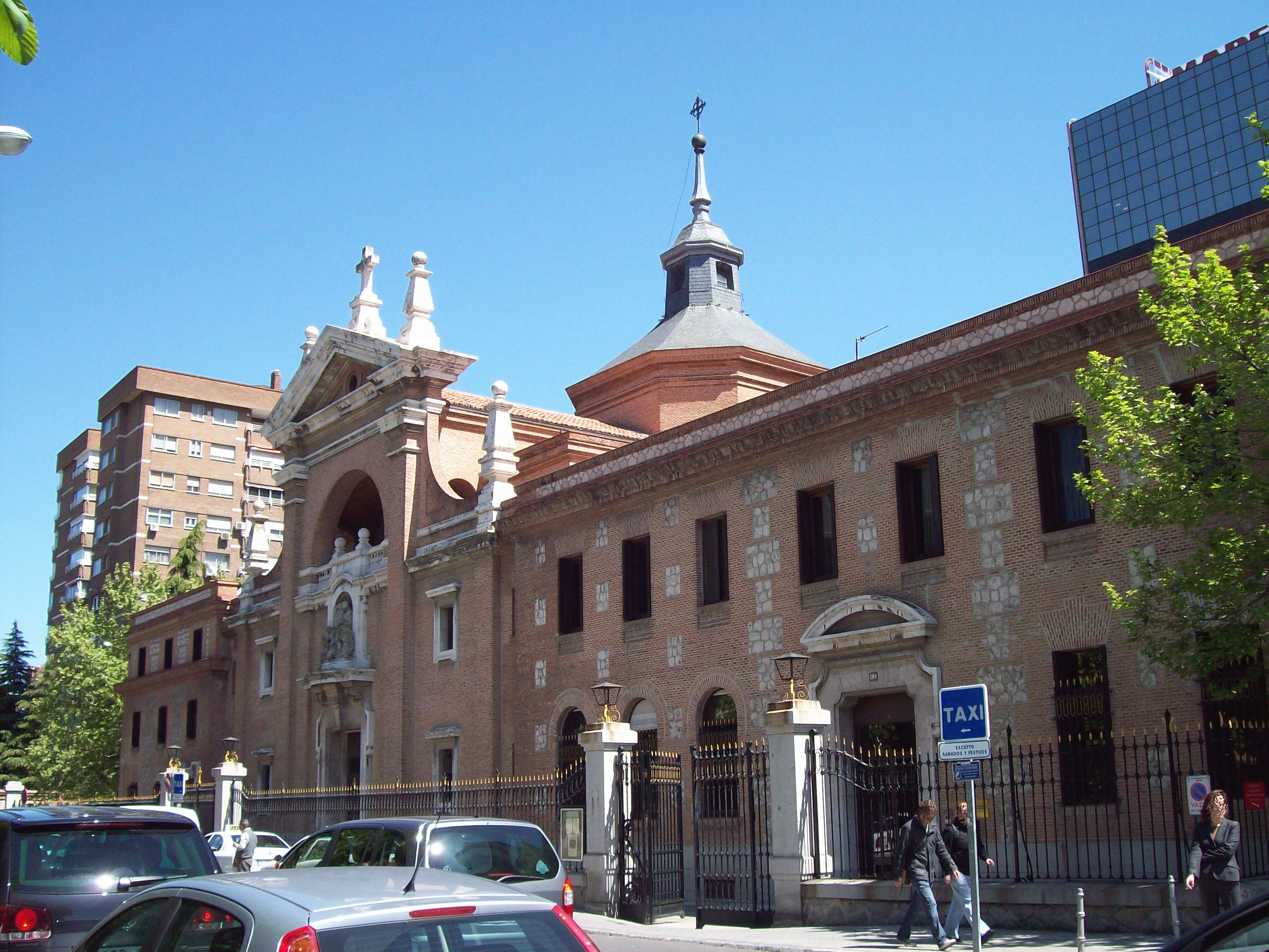 West façade of Convento e Iglesia de las Madres Reparadoras (convent and church) in Madrid (Spain), at 14 Avenida de Burgos (avenue) in Chamartín district. Building was projected in 1919 by Luis Bellido González and built between 1920 and 1925.